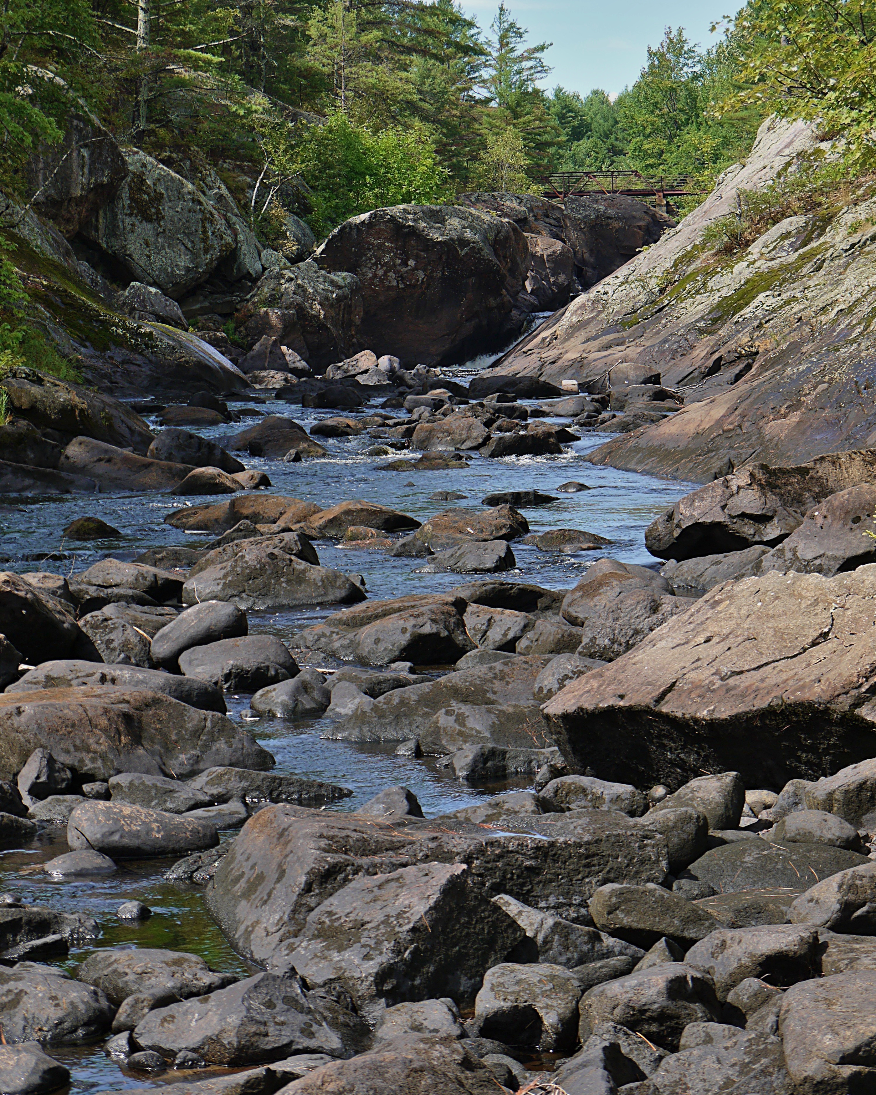 The Black River south of the Victoria Falls.